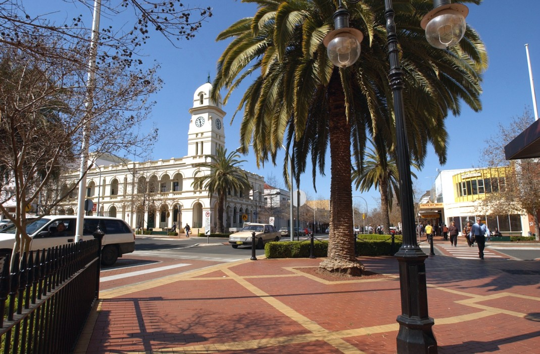 Photo taken by TCC in 2003. No copyright on photo. Used with permission.